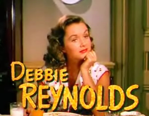 Cropped screenshot of Debbie Reynolds from the trailer for the film I Love Melvin.